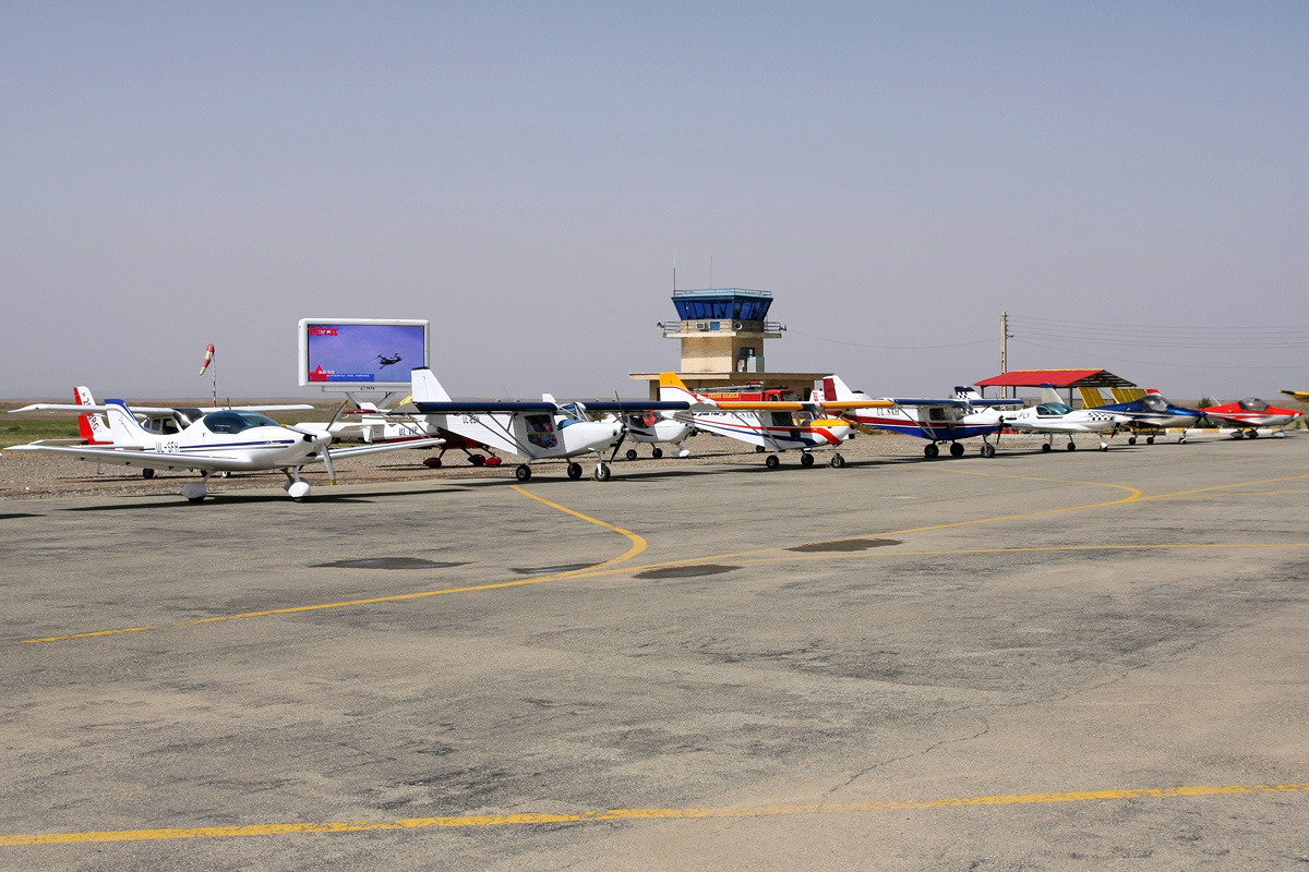 Light aircrafts parked at Qazvin Airport.